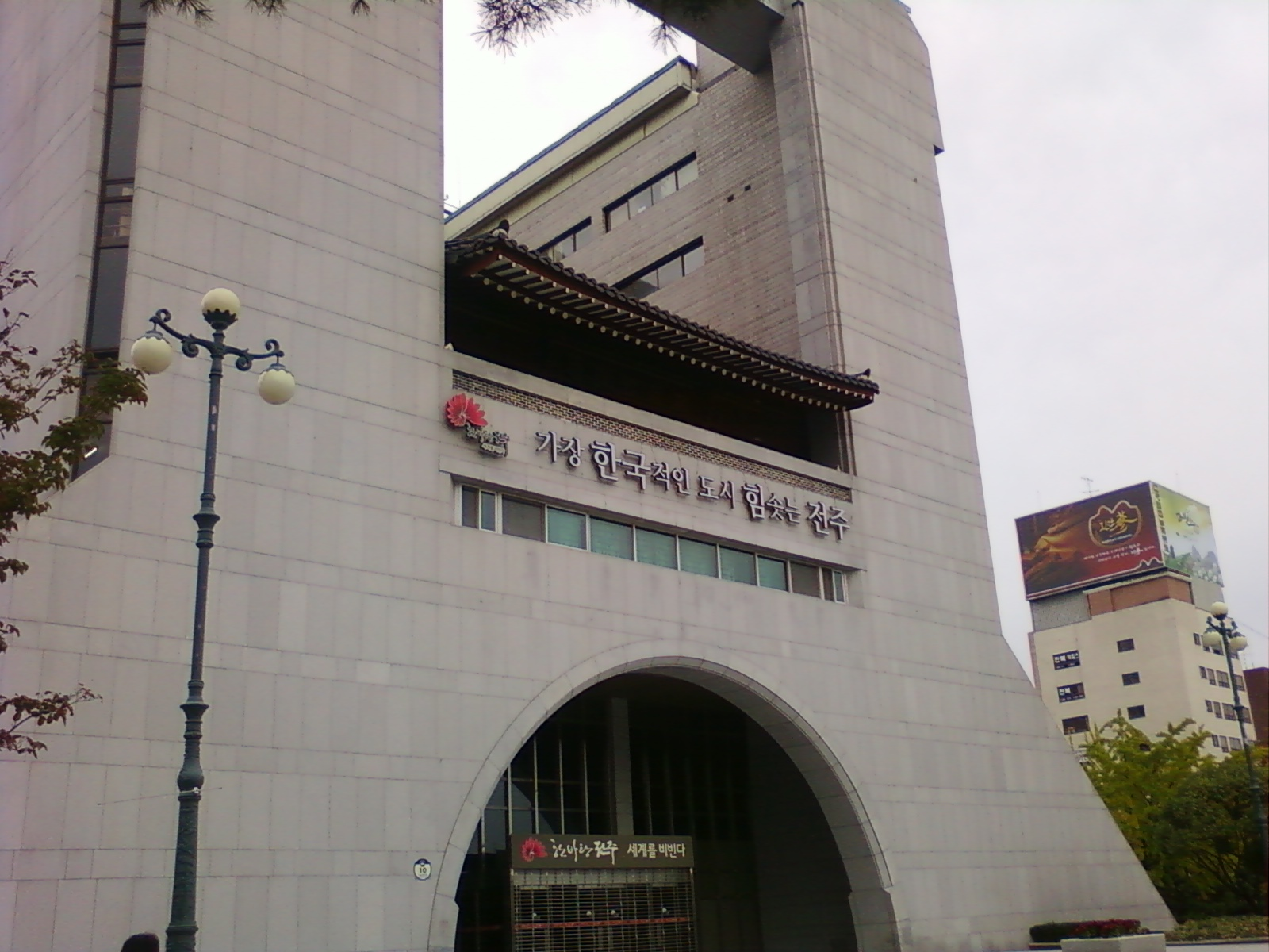 Jeonju City hall (Rep. of Korea)